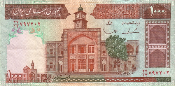 Iranian 1000 Rial banknote with Majid Ghasemi's signature as the governor CBI.